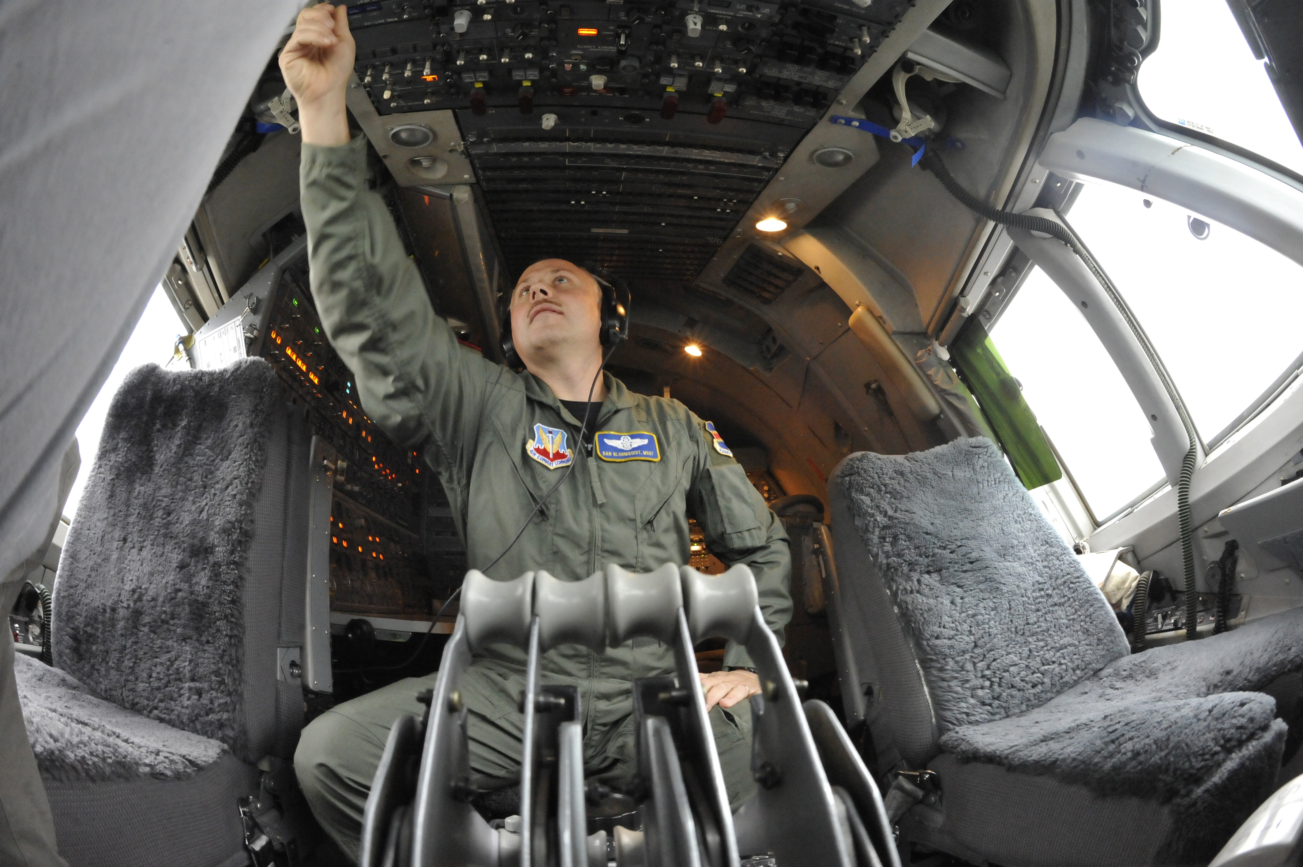 Master Sgt. Dan Bloomquist, a flight engineer with the 1st Airborne Command and Control Squadron at Offutt Air Force Base, Neb., preps an E-4B for flight during a simulated alert mission. The E-4B serves as the National Airborne Operations Center for the president, secretary of defense and chairman of the Joint Chiefs of Staff. The aircraft passed a significant milestone this month by sitting alert constantly for more than 35 years. (U.S. Air Force photo/Lance Cheung)